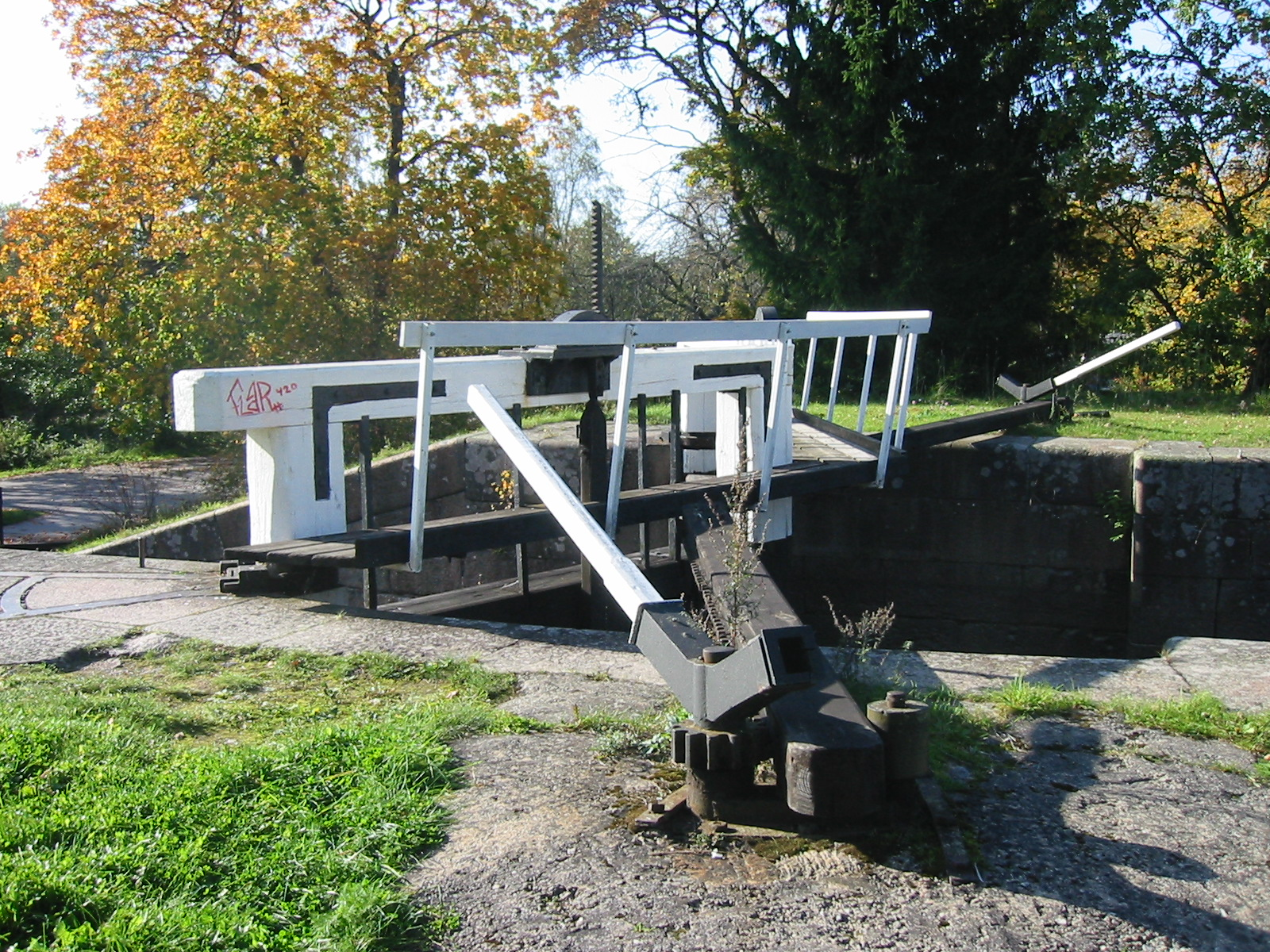 Canal lock of Strömsholm Canal, Surahammar